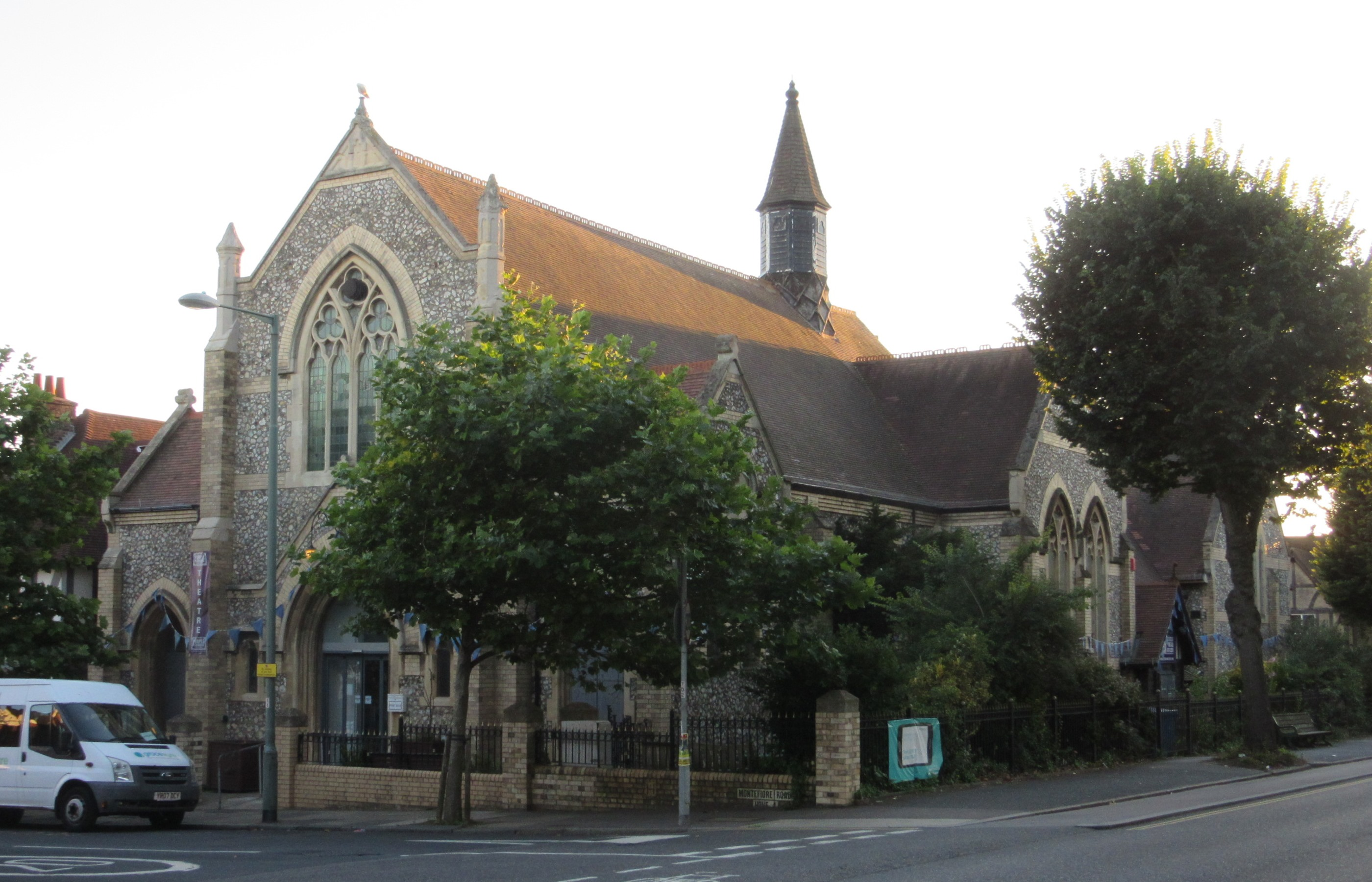 Former United Methodist Church, Old Shoreham Road, Hove, City of Brighton and Hove, England. Now used by a charity (the Grace Eyre Foundation). On Brighton & Hove City Council's Local List of Heritage Assets.